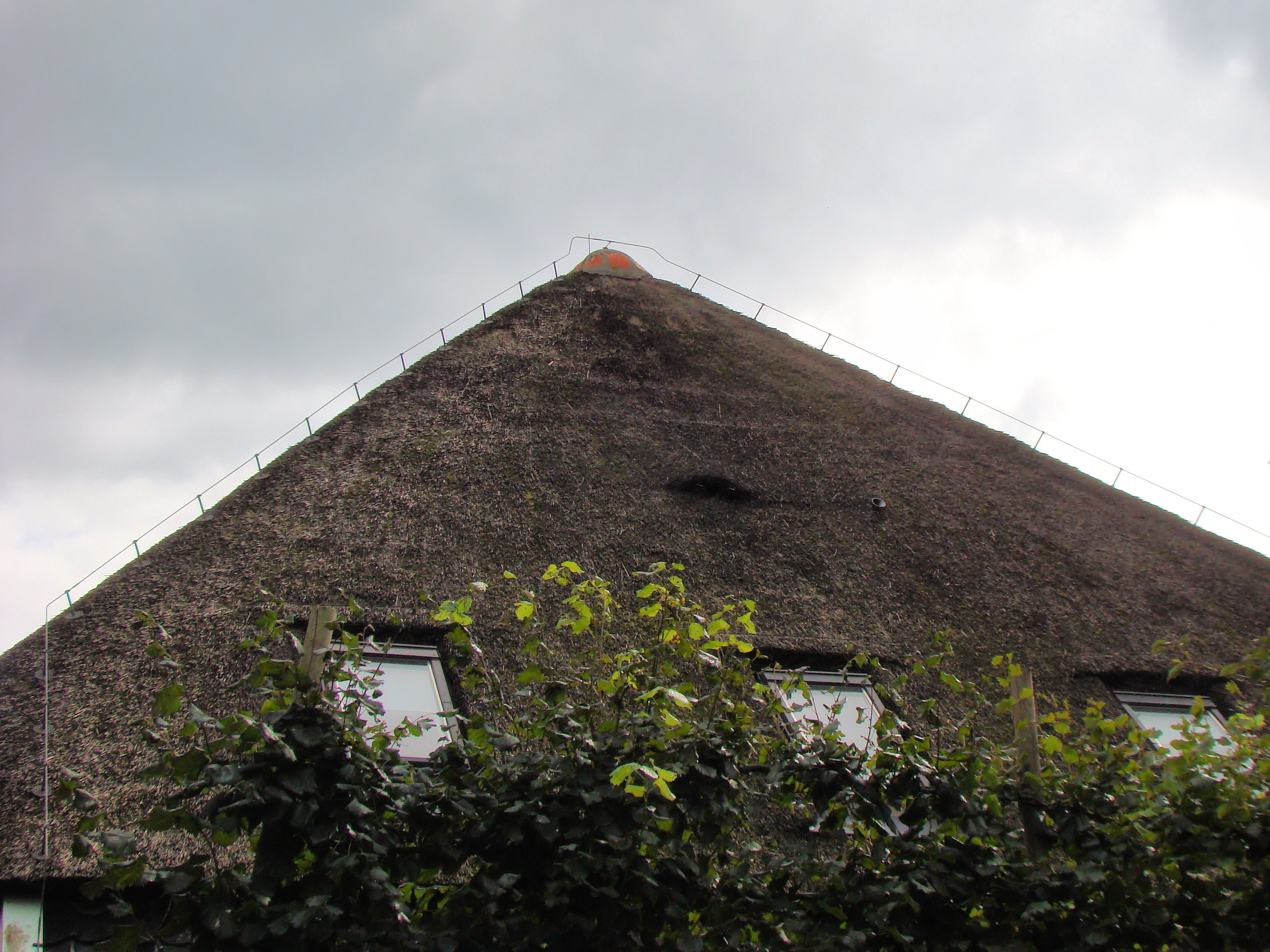 lightning rod on a thatched roof